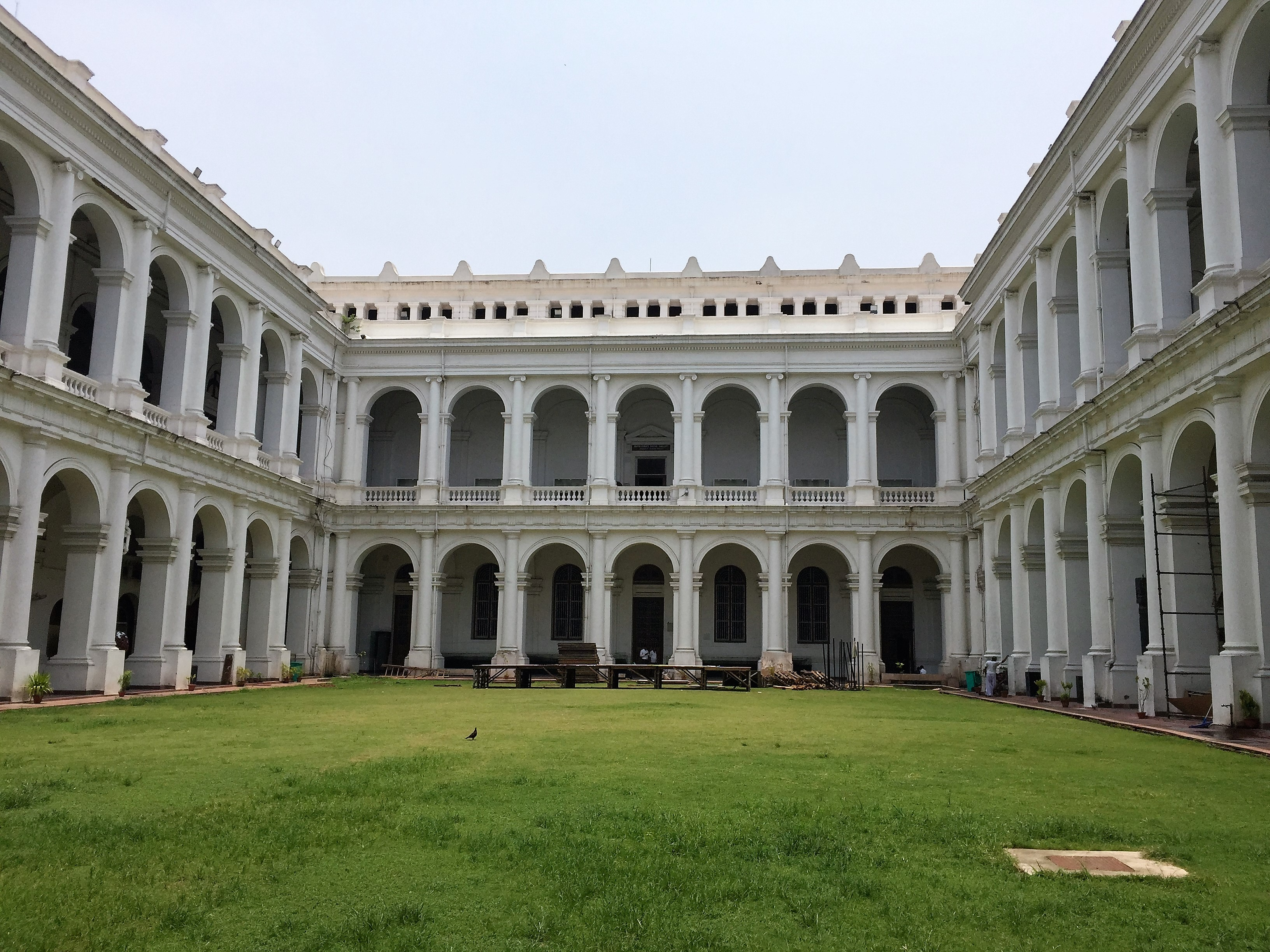 Indian Museum Kolkata